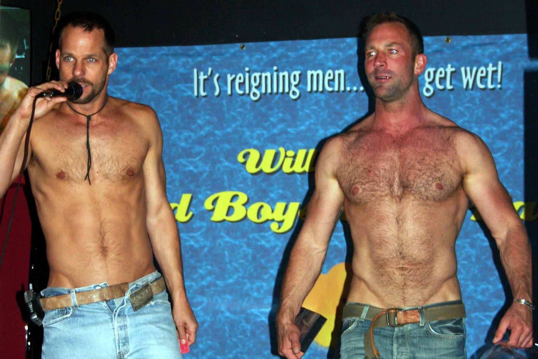 Will Clark's Bad Boys post-Grabby Recovery Brunch at the North End pub - Michael Brandon and Parker Williams